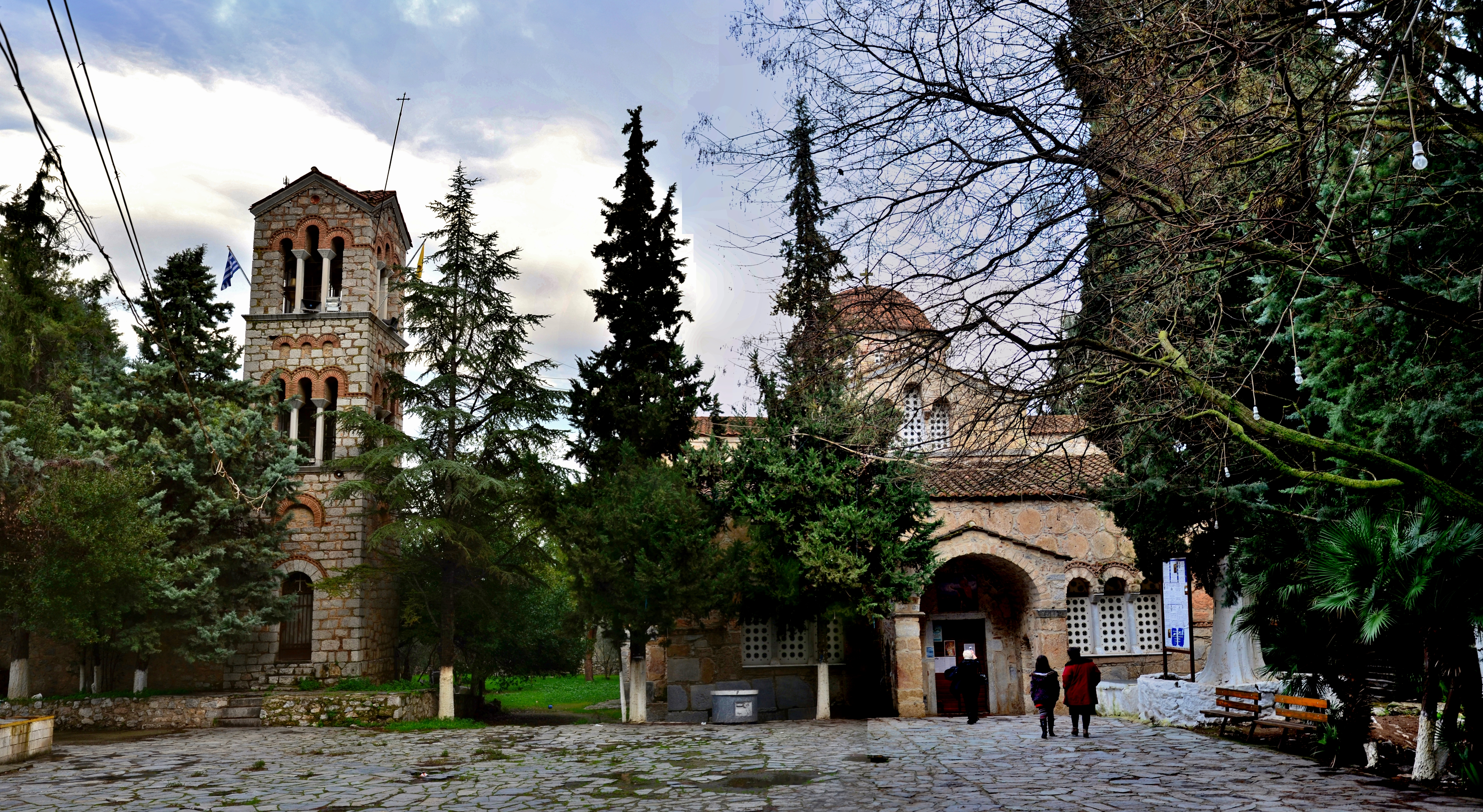 Panagia Scripou church in Orchomenos, Greece